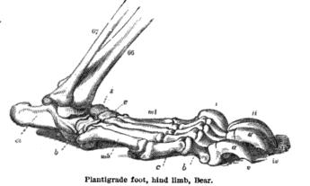 Illustration of bear hind foot, taken from On the Anatomy of Vertebrates: Birds and mammals far/by Richard Owen, publikigita de/published by Longmans, Green and Co., 1866